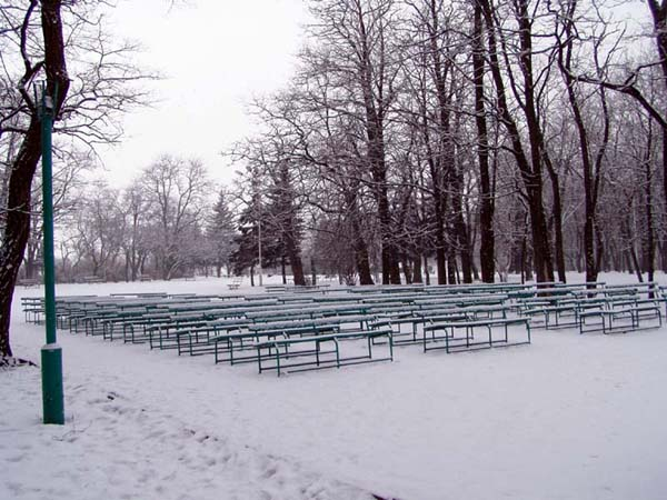 photo